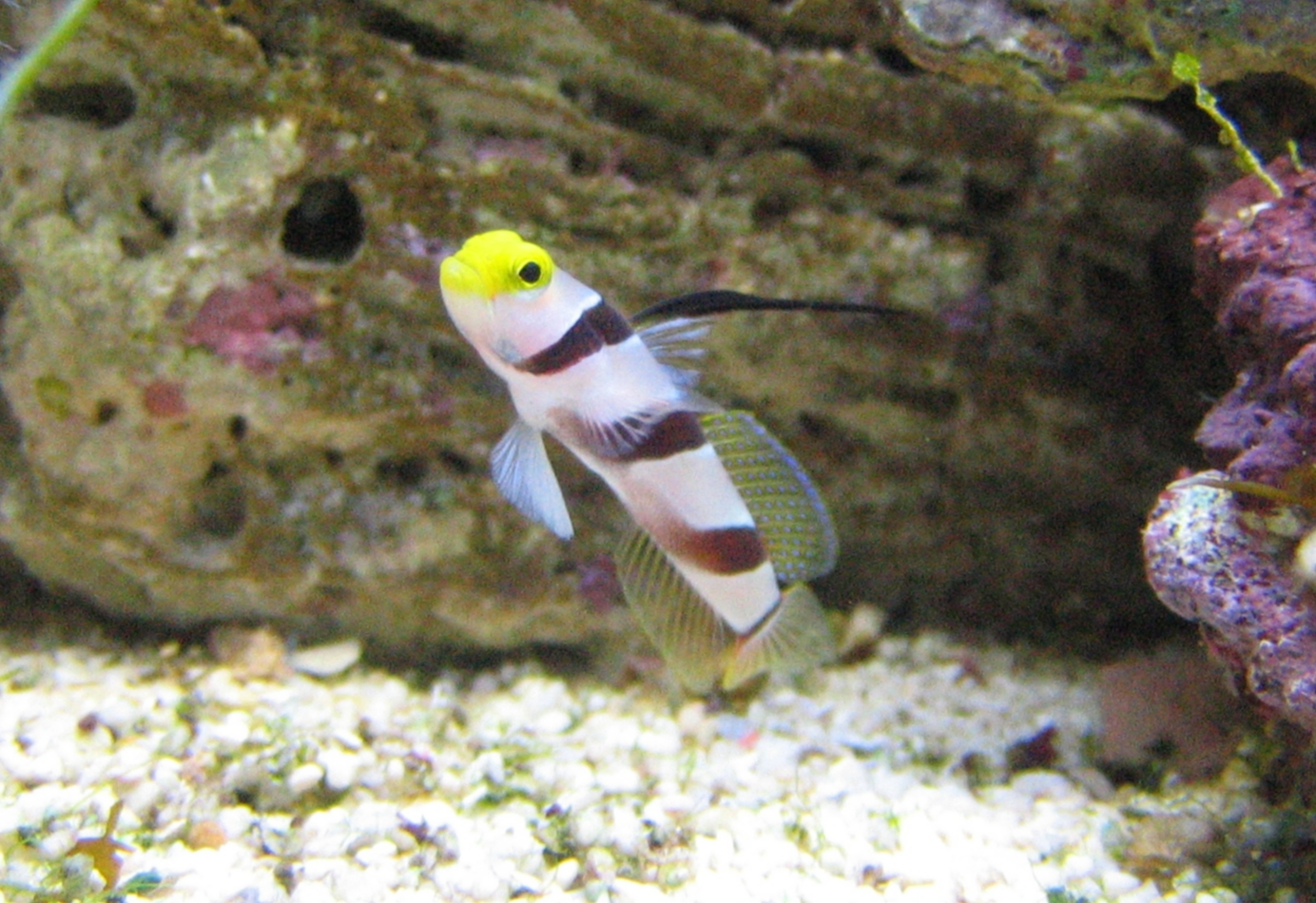 Author: Me, Sam Davies, wikipedia username: sammydee. This picture was taken using a Canon A85, of my own marine aquarium.